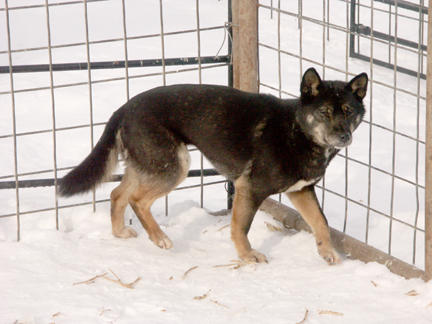 Another photo of a black & tan singing dog